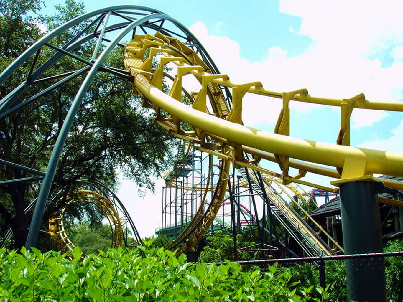 An overview of the major components of Python (chain lift and drop, background; double-corkscrew, foreground).